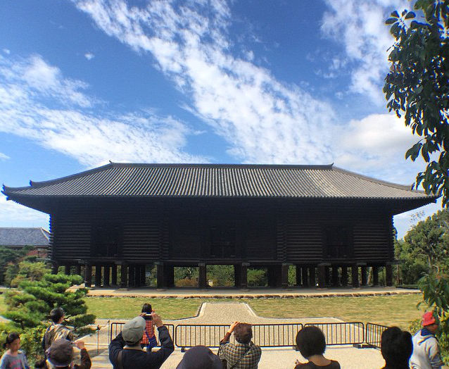 Japan: the Shōsō-in, imperial treasure house of the Tōdai-ji, in Nara city (Nara prefecture).